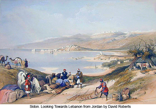 Sidon Looking Towards Lebanon from Jordan by David Roberts 1860